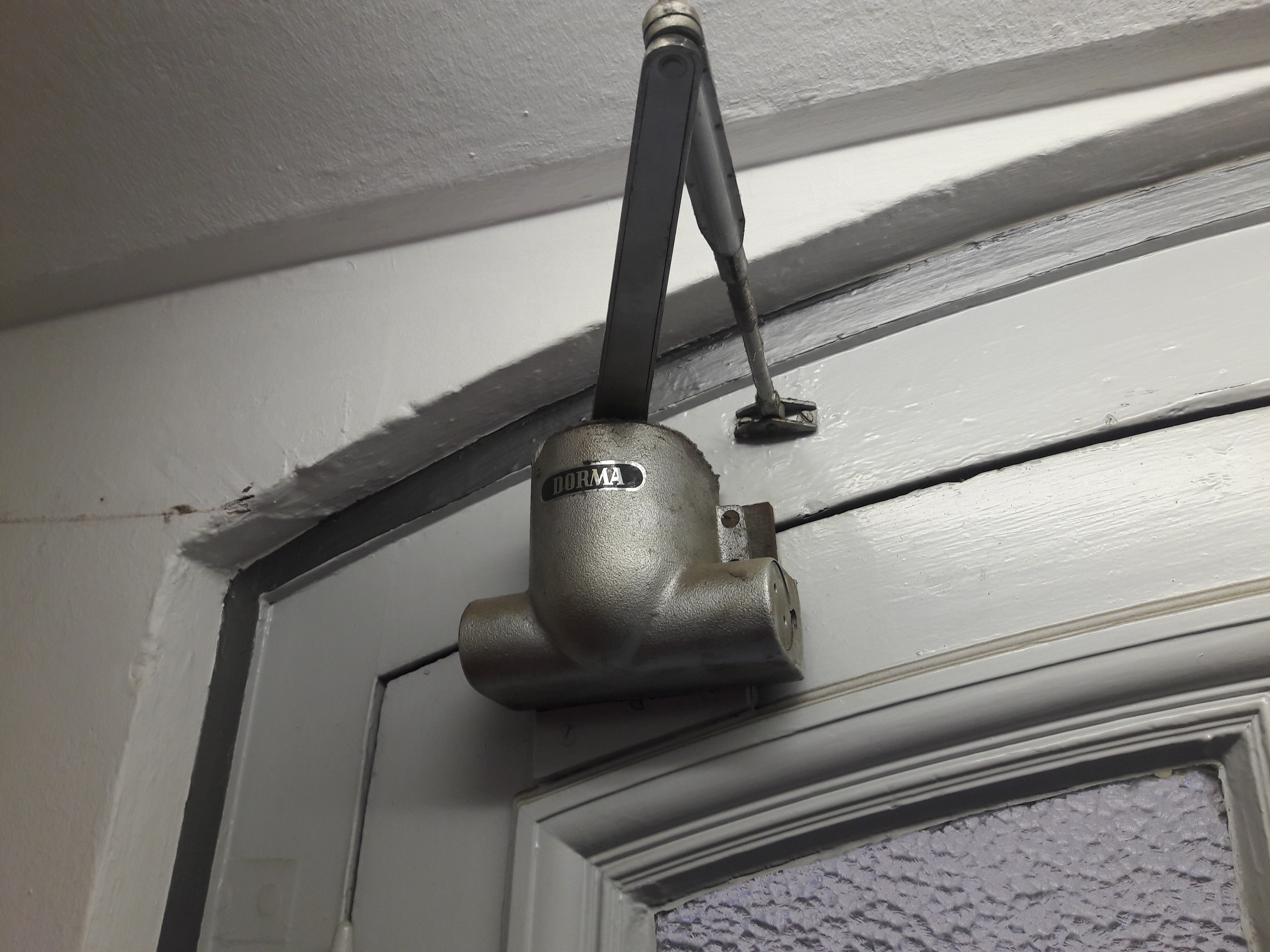 old mechanic door closer